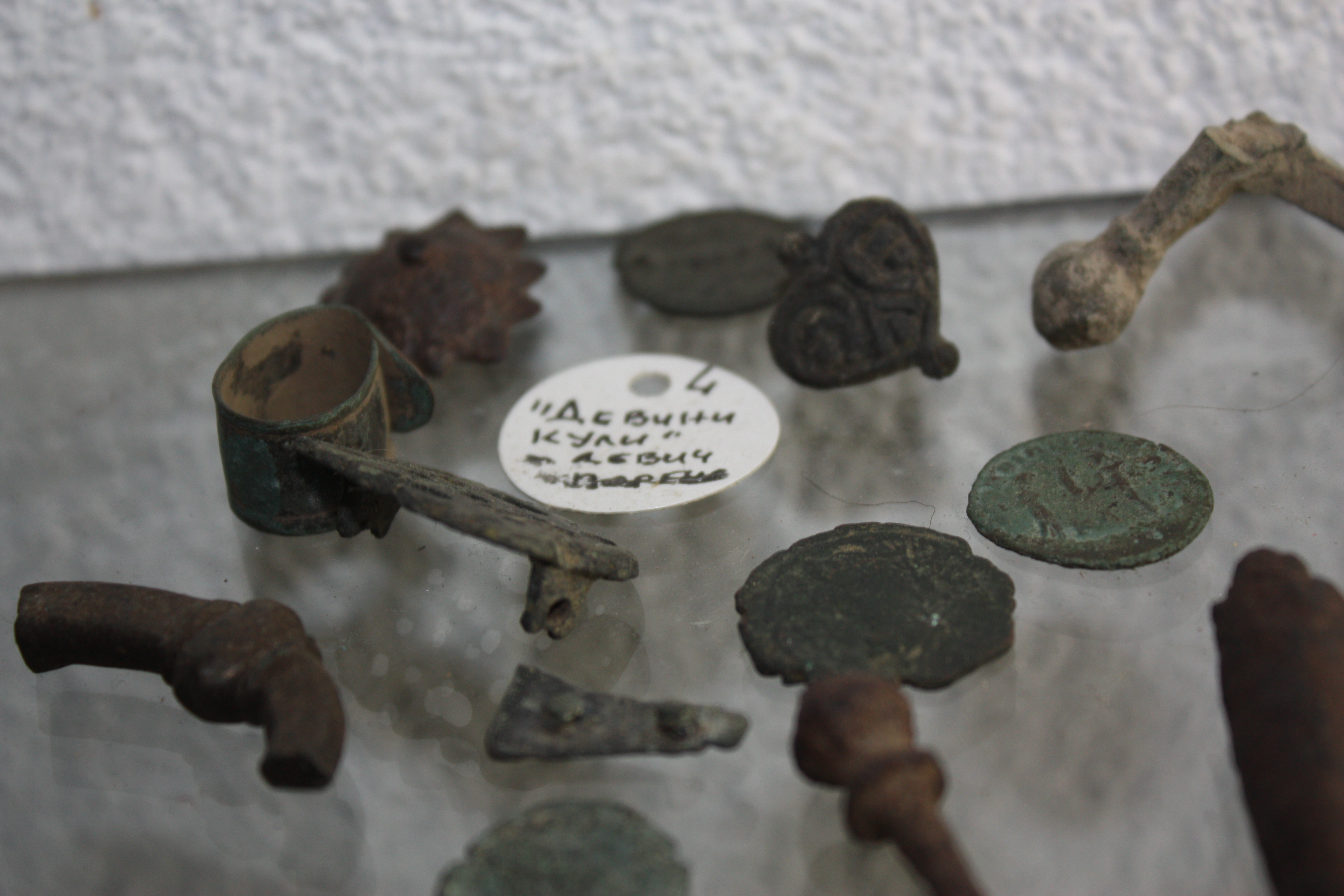 The World’s Smallest Ethnological Museum in Džepčište near Tetovo in Macedonia